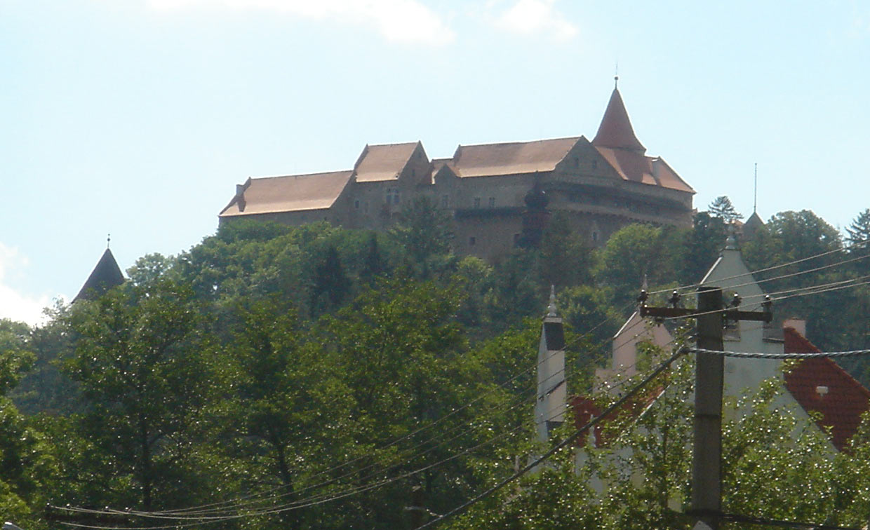 Castle Pernštejn Czech Republic view from village Nedvedice.